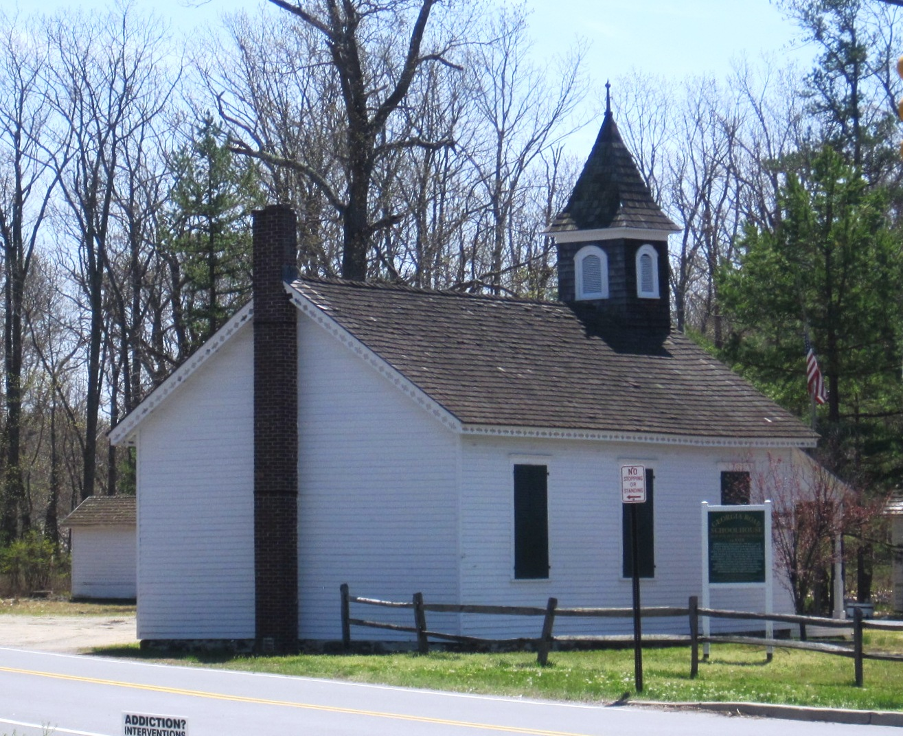 Photograph showing the Georgia Road Schoolhouse, located in the community of Georgia, New Jersey within Freehold Township. The building is located at the intersection of Jackson Mills Road (County Route 23) and Georgia Road (CR 53).